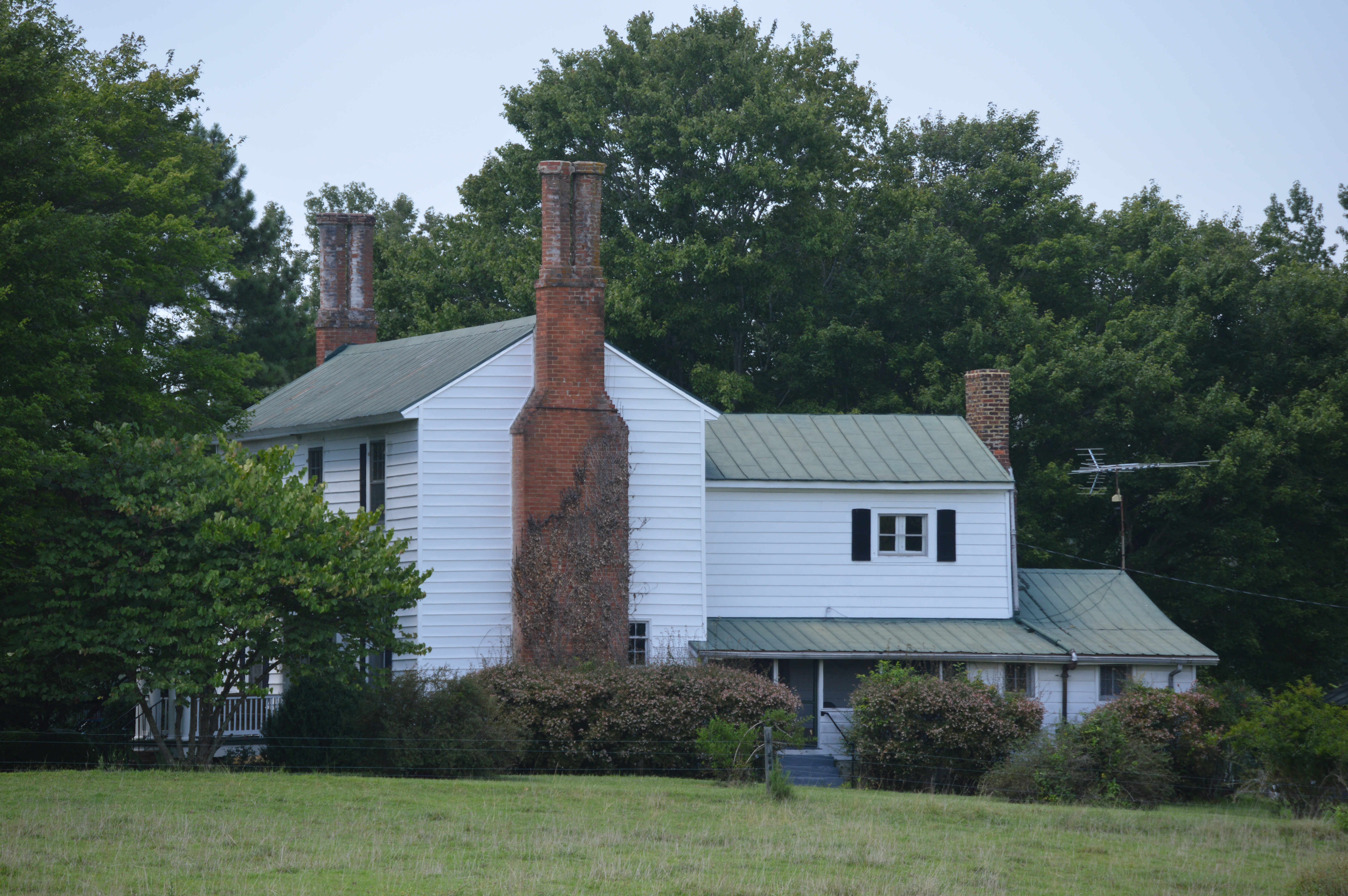 Eastern side of the Watkins House, located at 3115 Briery Road northwest of Keysville in Charlotte County, Virginia, United States. Built in 1830, it is listed on the National Register of Historic Places.